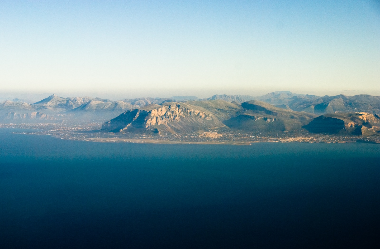 Map it: Google Earth | Street | Satellite | Hybrid | Nautical